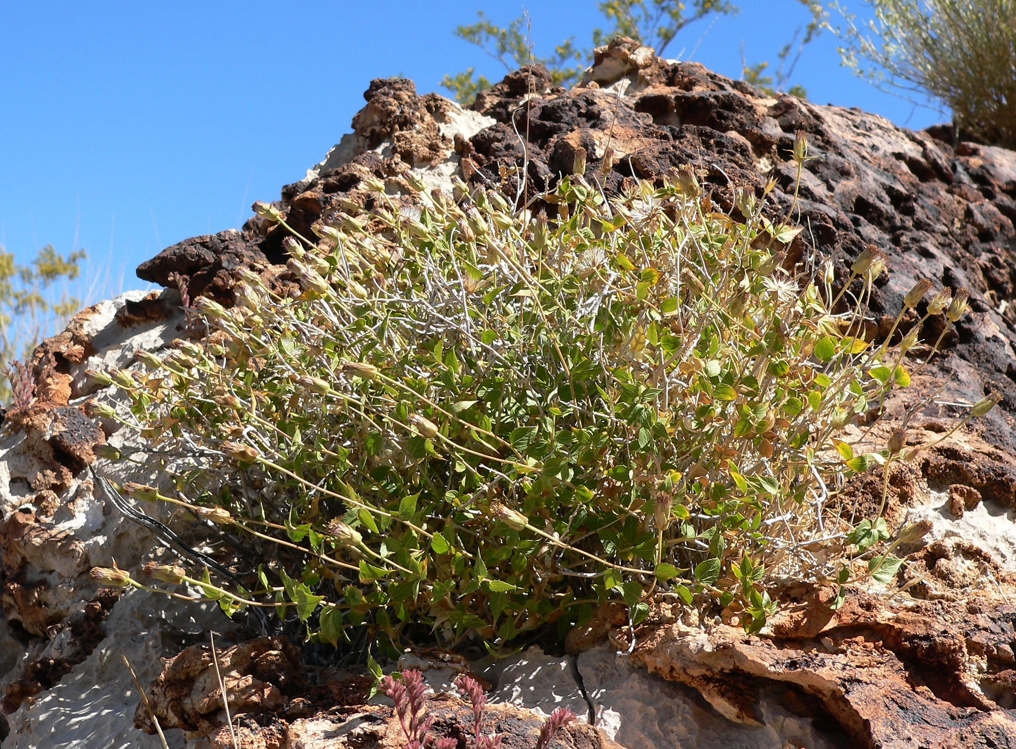 Brickellia atractyloides in a gully below the trail on the ridge just west and north of Fossil Ridge, the small gully that the trail passes before it reaches the ridge top, Red Rock Canyon, Spring Mountains, southern Nevada (elev. about 1100 m)